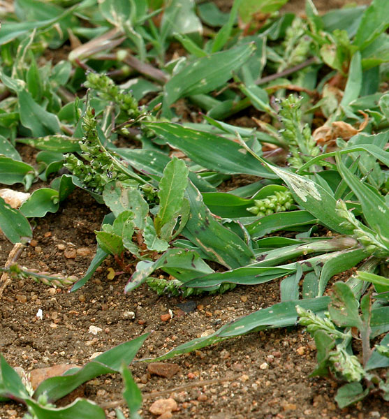 Echinochloa colona- Jungle-rice, awnless barnyard grass, birds rice, corn panic grass, Deccan grass, jungle rice, jungle ricegrass, little baryard grass, millet-rice, pigeon millet, shama millet, short millet, swampgrass • Hindi: Jangli jhangora, Jharwa, Jirio, शामा Shama • Kannada: kaadu haaraka, kaadu haaraka hullu • Marathi: borur, jiria, pacushama, sawank, tor, todia • Telugu: othagaddi- at Pocharam lake, Andhra Pradesh, India.